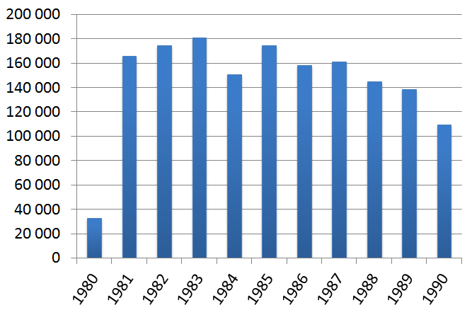 Chart showing Austin Metro / MG Metro production from 1980 to 1990. 1990 figure includes Rover Metro / Rover 100 production.